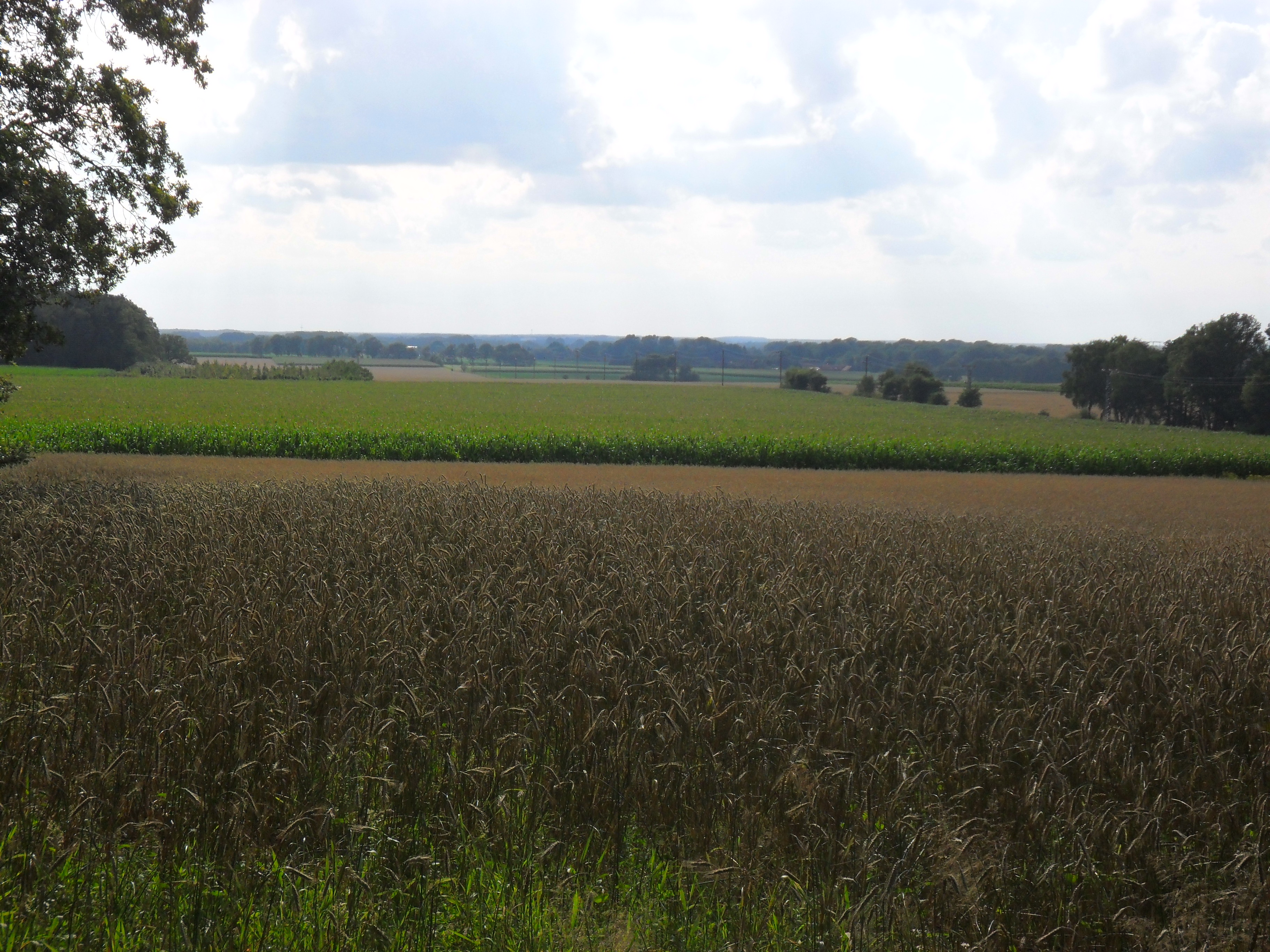 View from the top of the mountain "Höllenberg" in Lower Saxony, Germany